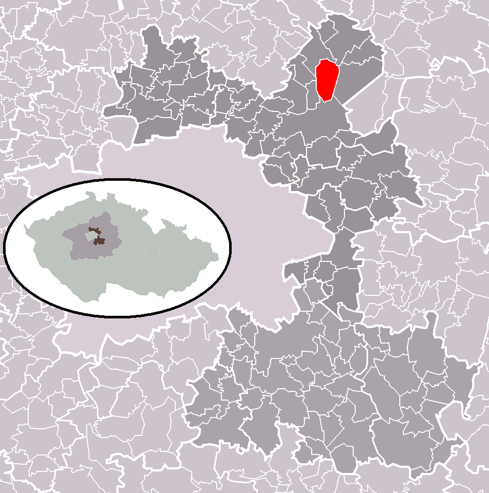 Location of Lhota municipality within Prague-East District and administrative area of Brandýs nad Labem-Stará Boleslav as a Municipality with Extended Competence.